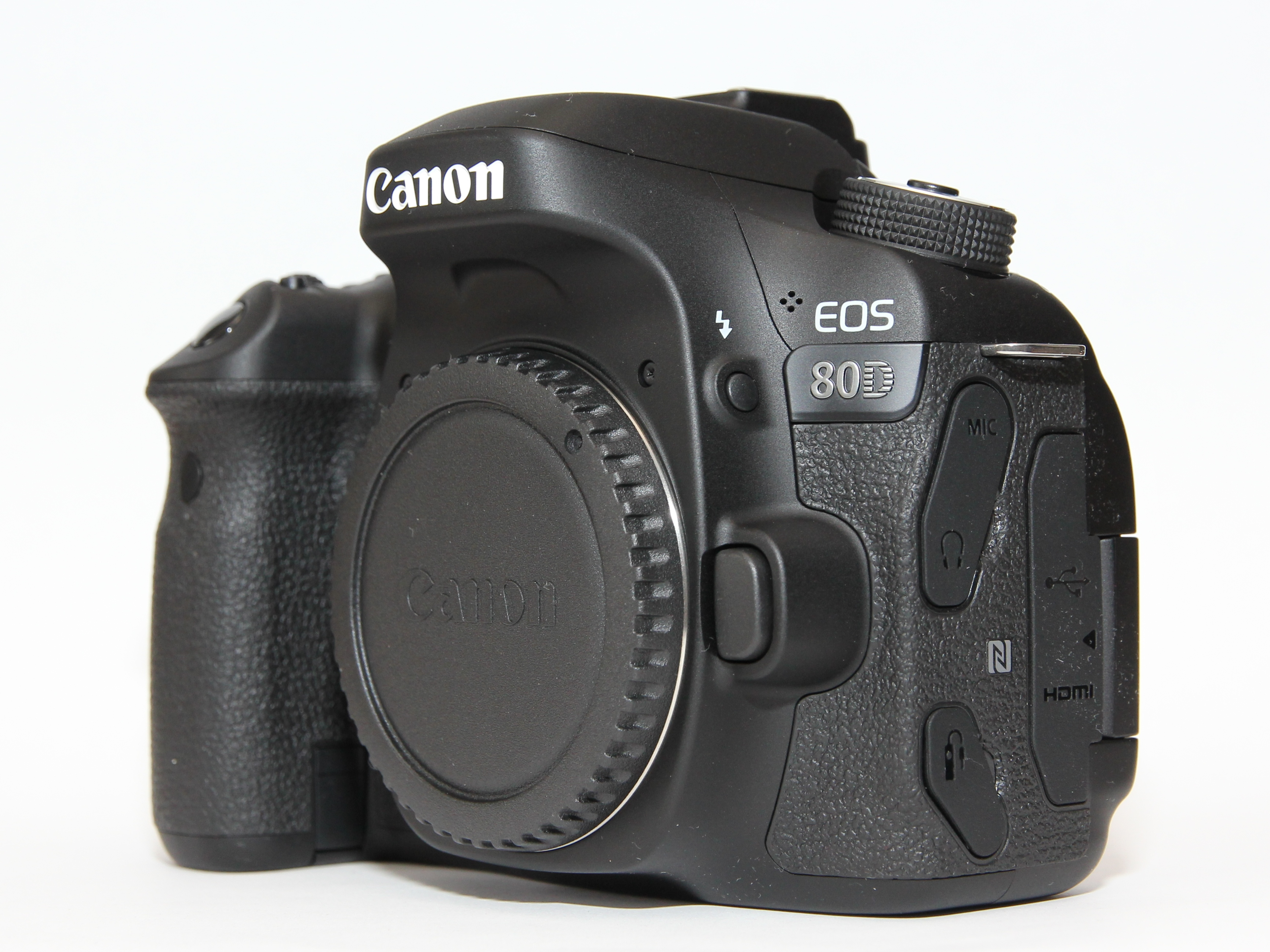 Canon EOS 80D DSLR body.